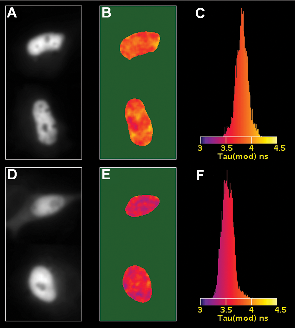 Example for Fluorescence lifetime imaging microscopy (FLIM). FLIM images of cells expressing mKO-p65 in absence (a–c) or presence (d–e) of mCherry-p65. The panels show the fluorescence intensity of two merged representative nuclei (a, d), the modulation lifetime map (b, e) and the histogram of the modulation lifetime distribution (e, f). The reduced lifetime observed for cells expressing both mKO-p65 and p65-mCherry is due to FRET, indicating homodimerization of p65. The width of the images corresponds to 28 µm. Figure derived from Goedhart J, Vermeer JE, Adjobo-Hermans MJ, van Weeren L, Gadella TW (2007). "Sensitive detection of p65 homodimers using red-shifted and fluorescent protein-based FRET couples". PLoS ONE 2 (10): e1011. PMID 17925859. PMC: 1995760.